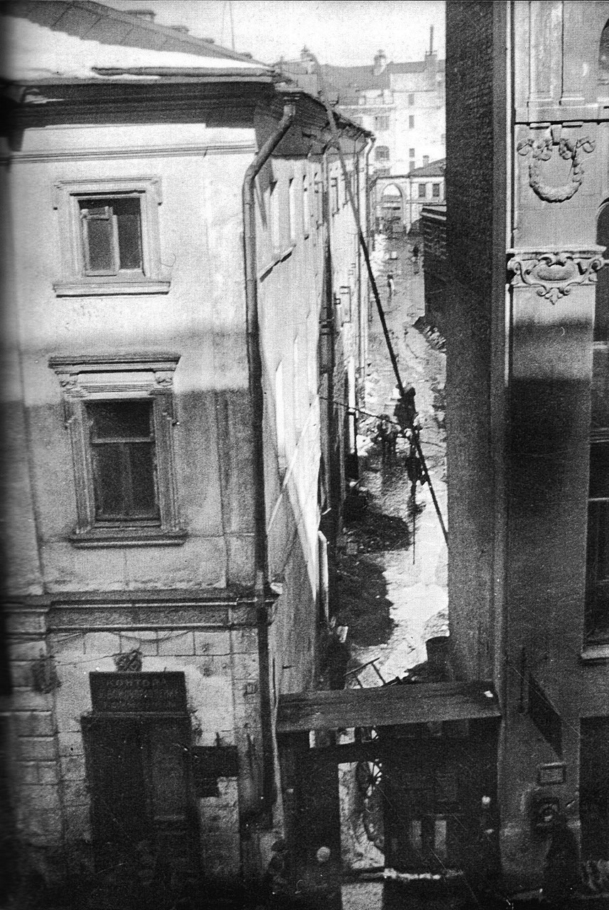 Loskutnaya Hotel, Moscow, Russia. View from the hotel window in Tverskaya street